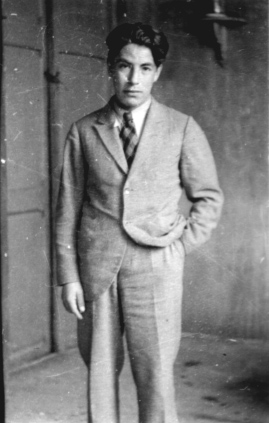 A young Carlos Salazar Mostajo